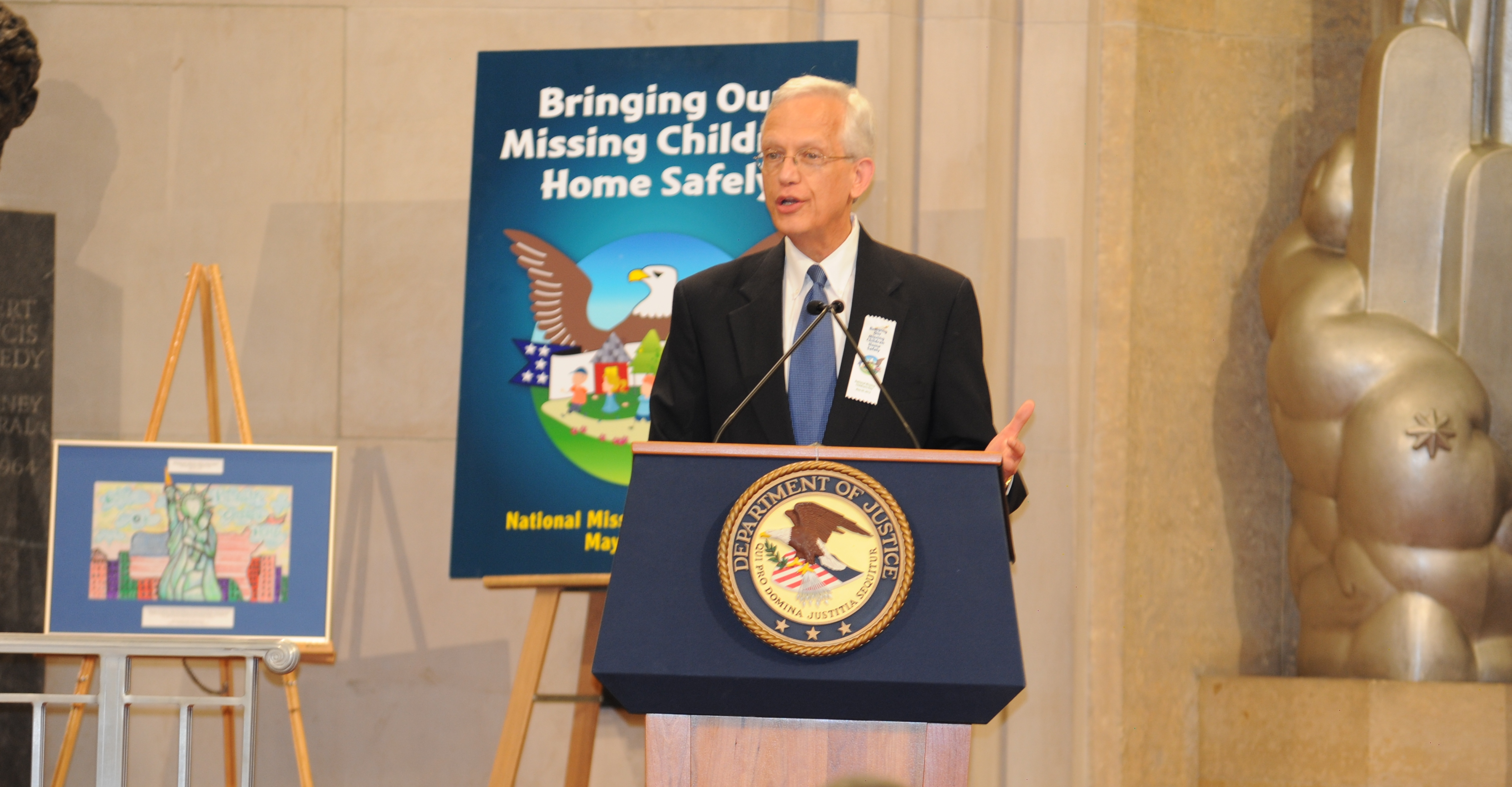 Ernie Allen, President and CEO of the National Center for Missing and Exploited Children, speaks on behalf of his organization on May 23, 2012.